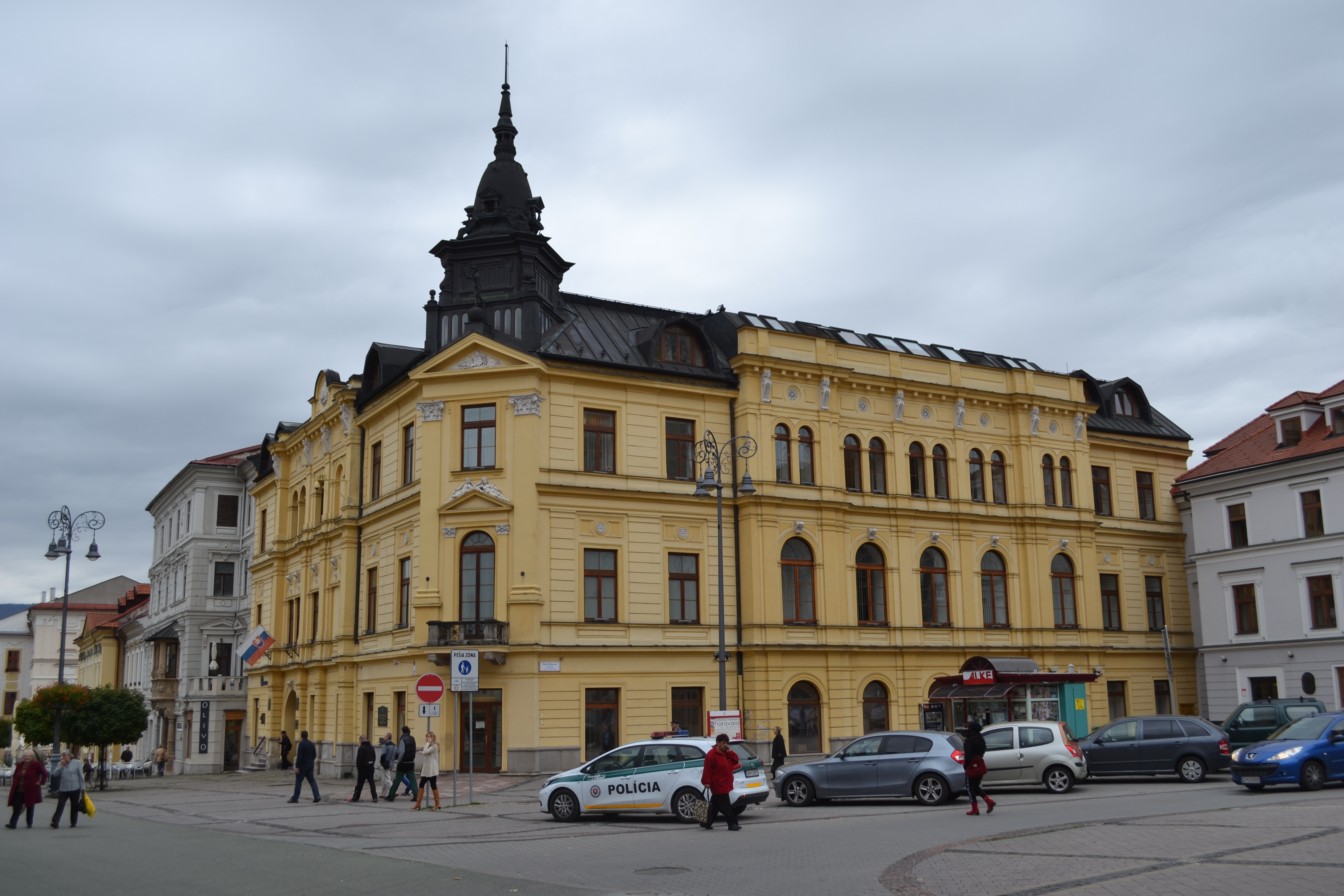 Memorial House, Square of SNP 23, Banská Bystrica